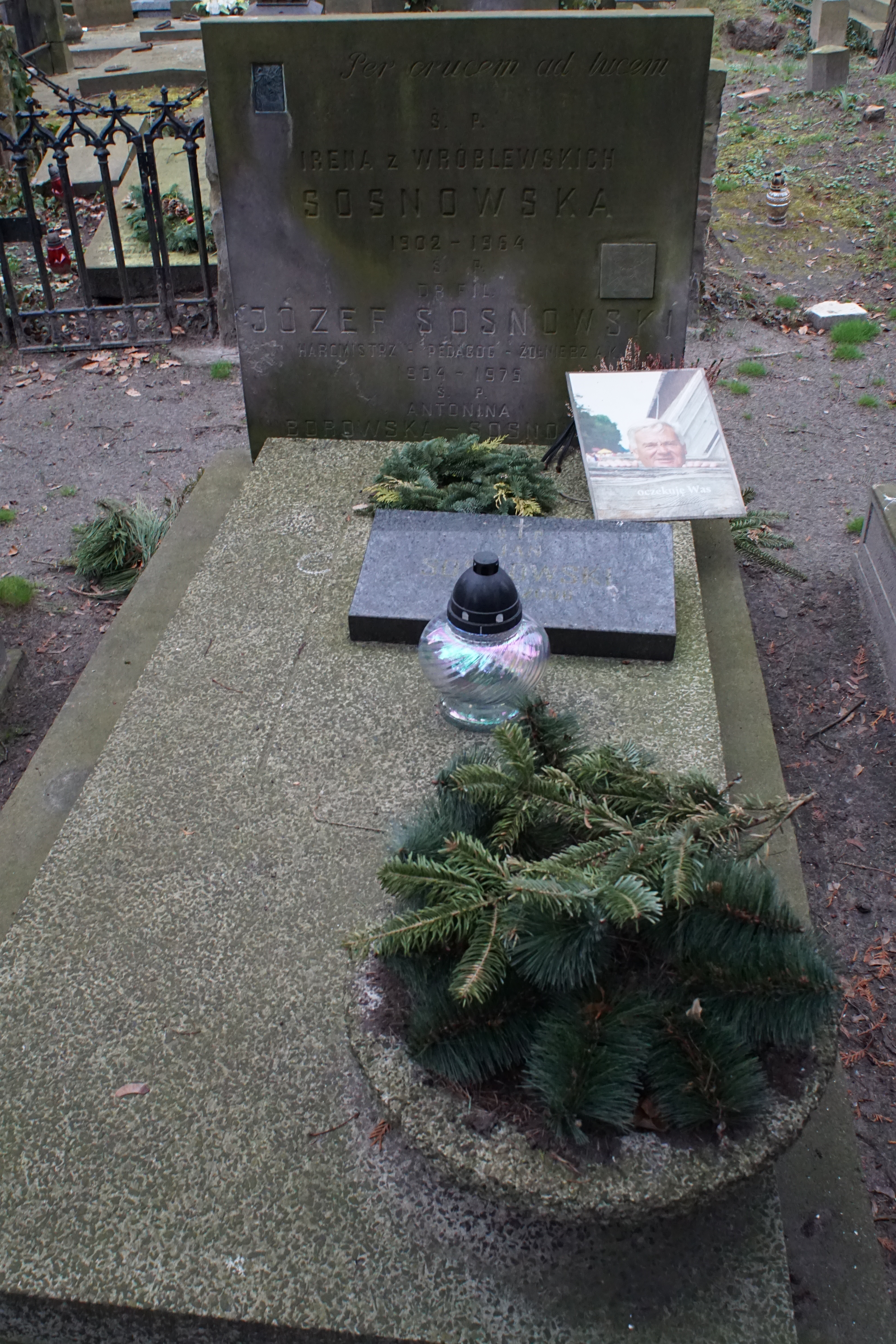 The grave of Józef Marian Sosnowski at the Powązki Cemetery (section 8, row 8, grave 8)